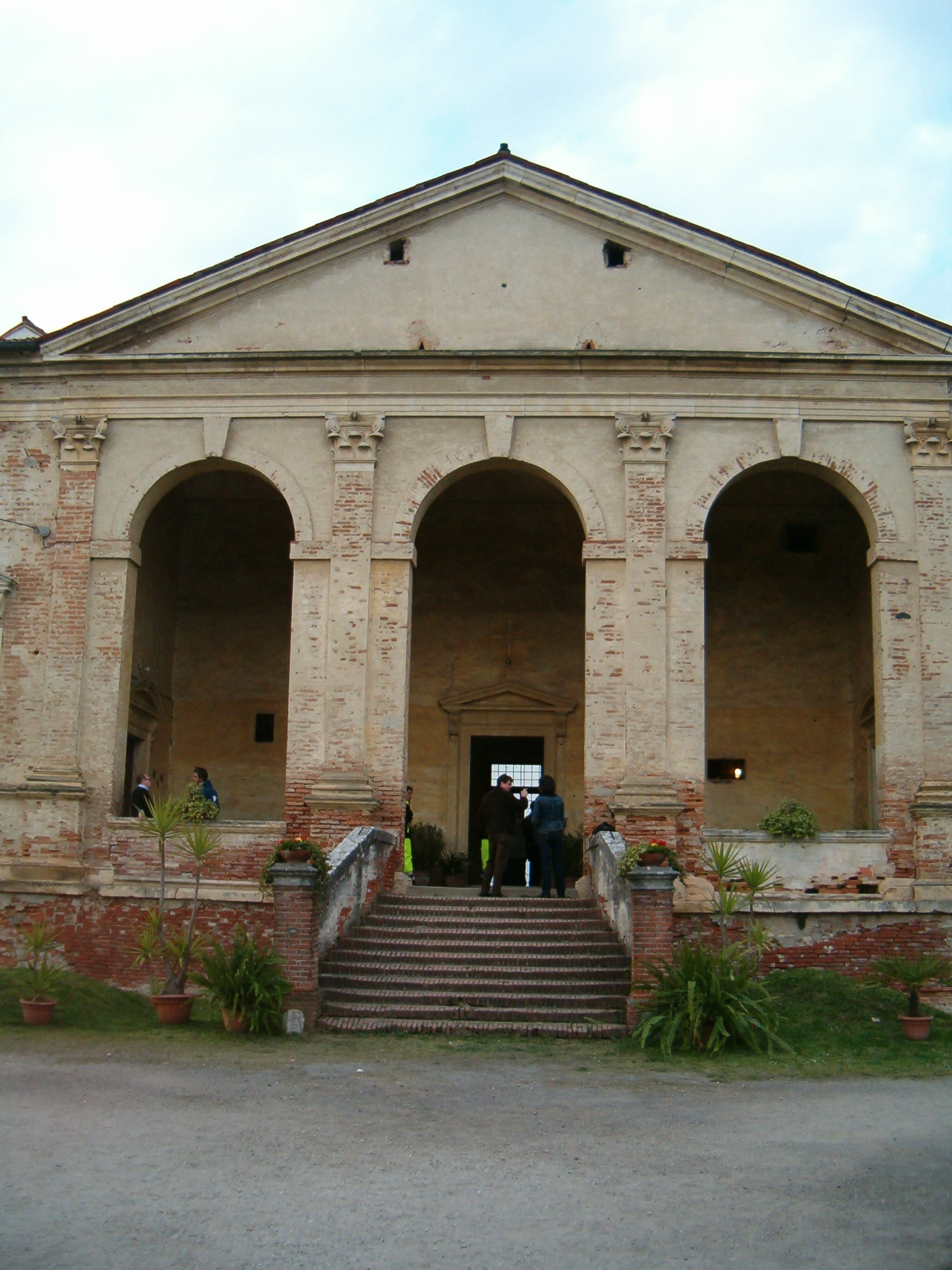 Villa Gazzotti in Bertesina, Vicenza, designed by Andrea Palladio. During FAI (italian heritage fund) special opening day.